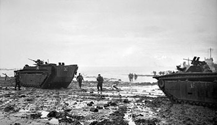 LVT Buffalo amphibians during the invasion of Walcheren Island.